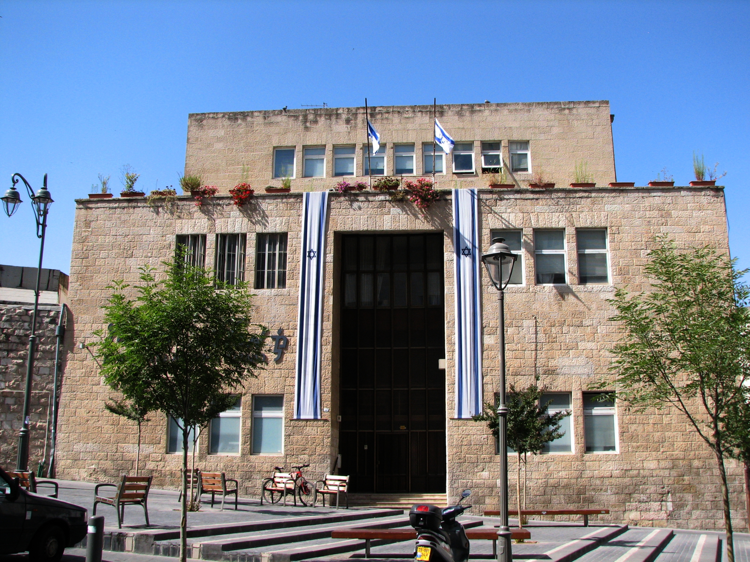 Lifshitz College, Hillel Street, Jerusalem, Israel